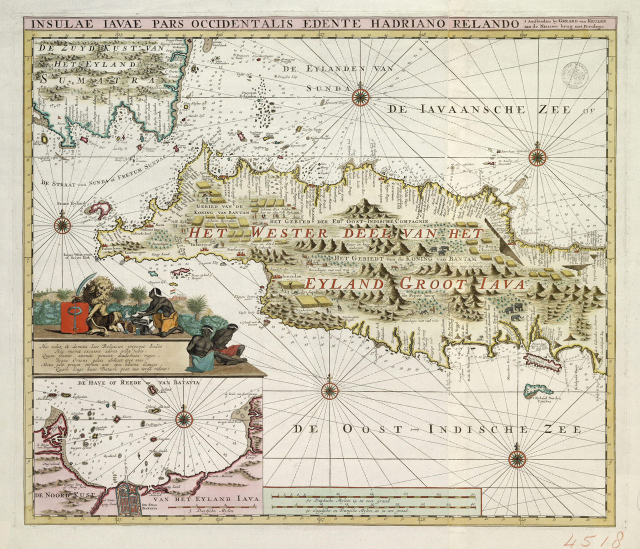 Map of the Western portion of Java, in 1718 (map is in Dutch)